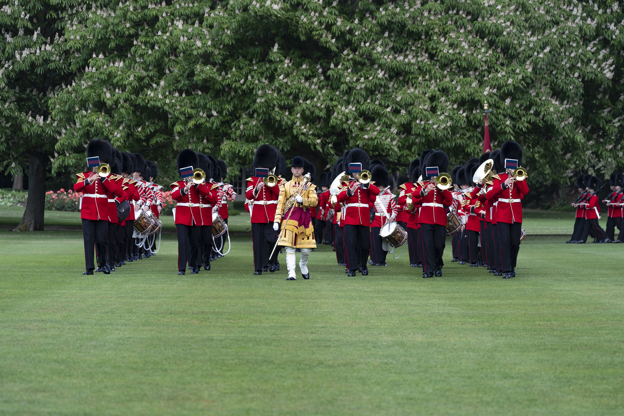 The Grenadier Guards with a Band of the Grenadier Guards render a Royal Salute welcoming President Donald J. Trump and First lady Melania Trump to Buckingham Palace Monday, June 3, 2019 during their official welcome ceremony at the palace in London. (Official White House Photo by Shealah Craighead)